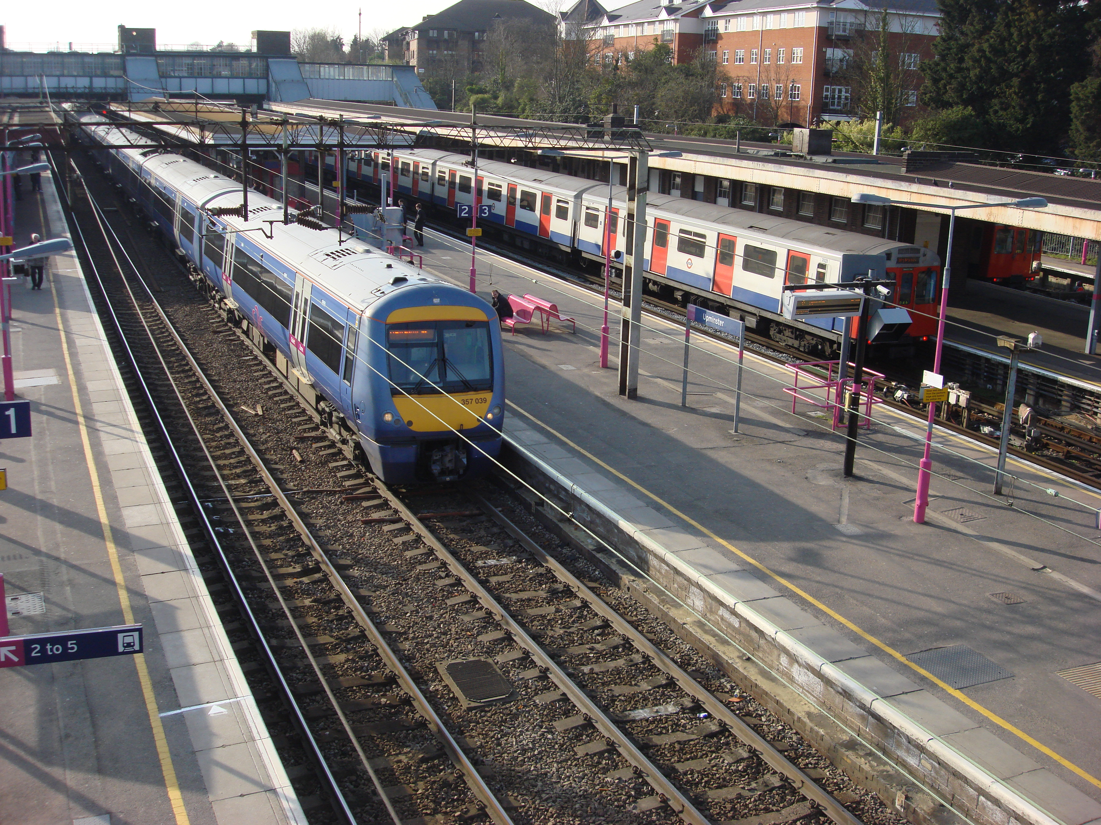 Upminster railway station